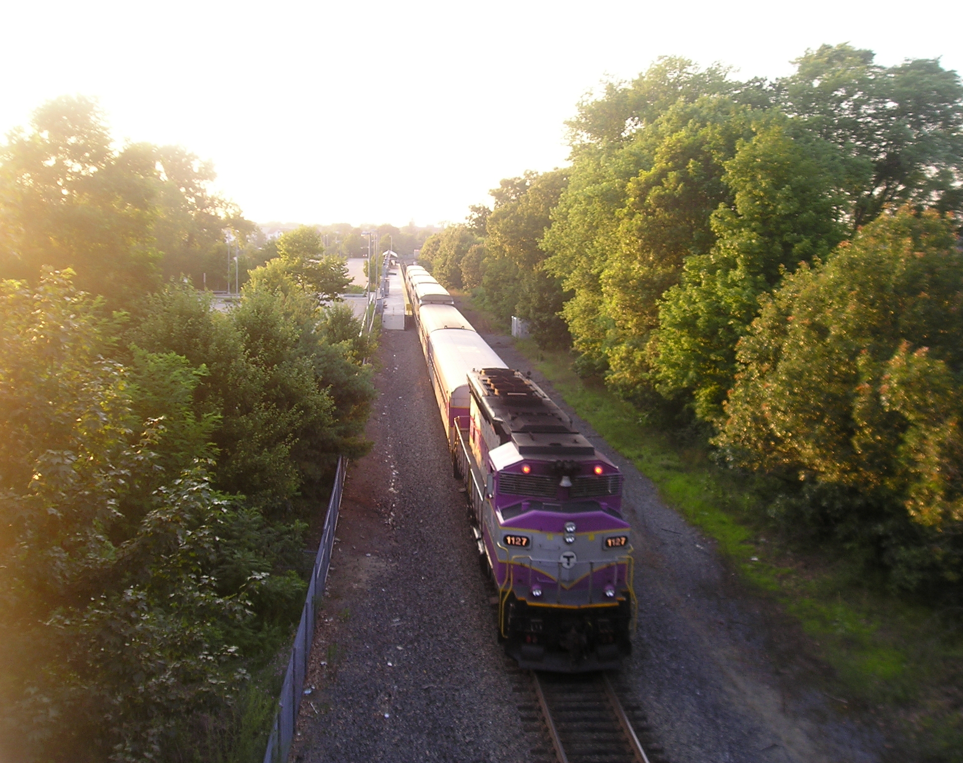 Inbound train at Campello station